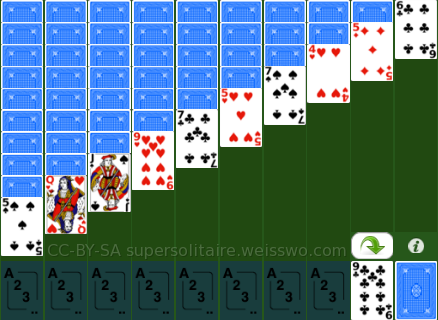 The initial setup of the game for Big Harp Solitaire that plays like Klondike. Screenshot from my pet project SuperSolitaire for the iPhone.